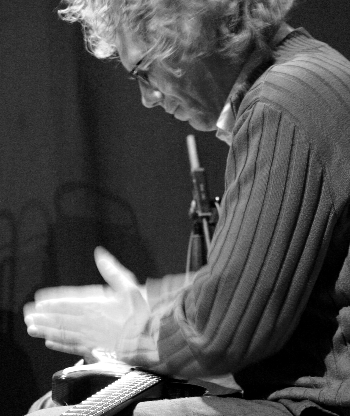 Gunnar Geisse playing a laptop guitar